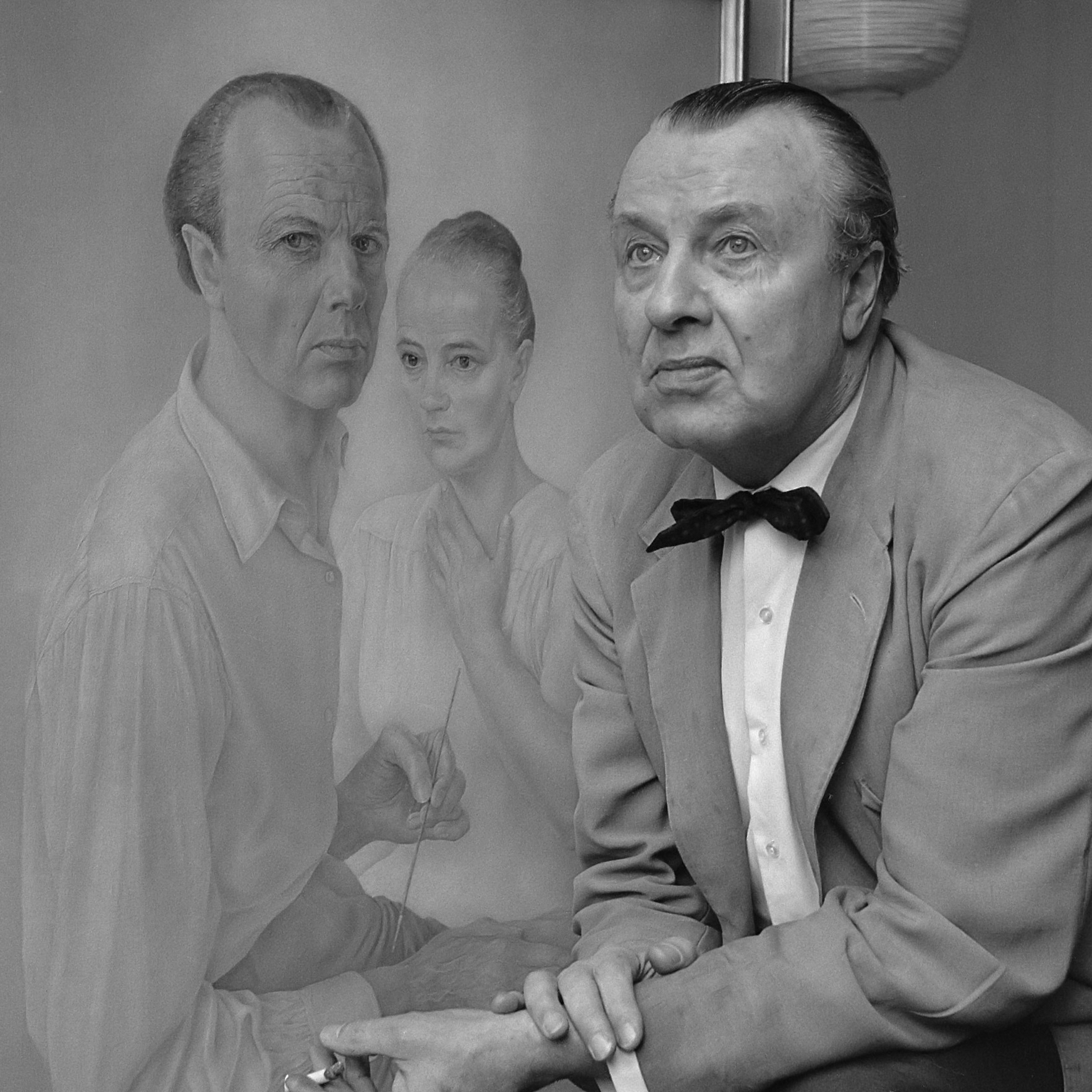 Wim G. S. Schuhmacher (schilder) 28-2-1964 70 jaar, een van zijn zelfportretten met echtgenote 24 februari 1964